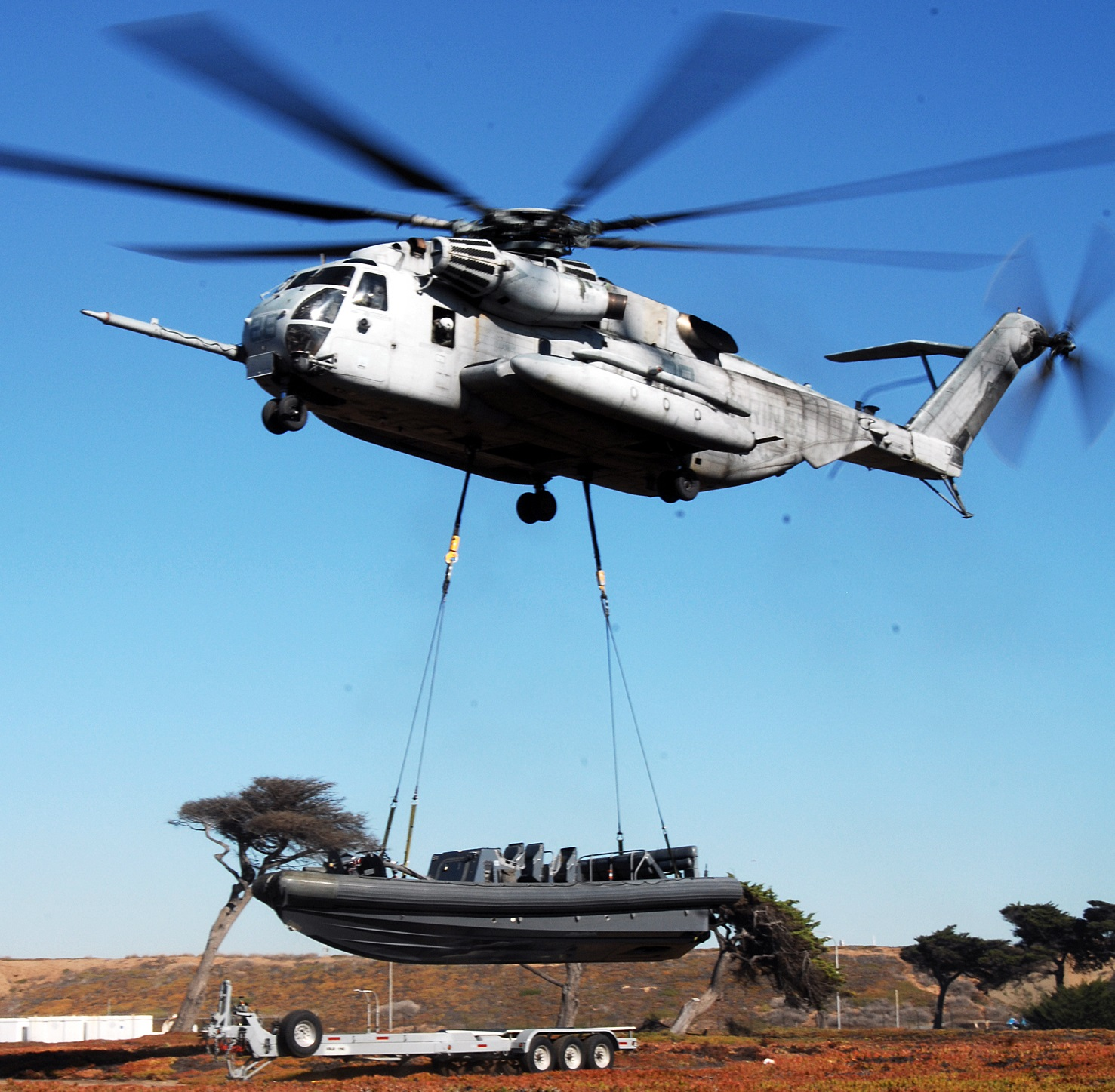 Derivative of File:US Navy 071212-N-4772B-111 A Marine Corps CH-53 helicopter lifts a rigid hull inflatable boat (RHIB), from Special Boat Team (SBT) 12, during a maritime extraction air transportation system evolution.jpg